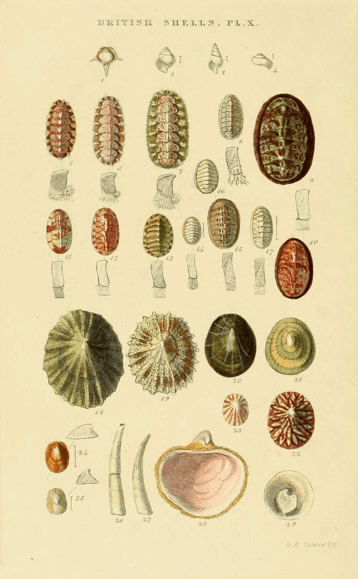 Illustrated Index of British Shells. Plate X. 1Hyalæa trispinosaDiacria trispinosa2Spirialis FlemingiiLimacina retroversa3Spirialis MacandreiLimacina retroversa4Spirialis JeffreysiiLimacina retroversa5Chiton fascicularisAcanthochitona fascicularis6Chiton gracilisAcanthochitona crinita7Chiton discrepansAcanthochitona discrepans8Chiton HanleyiHanleya hanleyi9, 10Chiton marmoreusTonicella marmorea11Chiton lævisCallochiton septemvalvis12Chiton ruberTonicella rubra13Chiton cinereusLepidochitona cinerea14Chiton albusStenosemus albus15, 16Chiton asselusLeptochiton asellus17Chiton cancellatusLeptochiton cancellatus18Patella vulgataPatella vulgata19Patella athleticaPatella ulyssiponensis20Patella pellucidaPatella pellucida21Patella pellucida var. lævisPatella pellucida22Acmæa testudinalisTestudinalia testudinalis23Acmæa virgineaTectura virginea24Pilidium fulvumIothia fulva25Propilidium ancyloidePropilidium exiguum26Dentalium entalisAntalis entalis27Dentalium tarentinumAntalis vulgaris28Pileopsis hungaricusCapulus ungaricus29Calyptræa sinensisCalyptraea chinensis